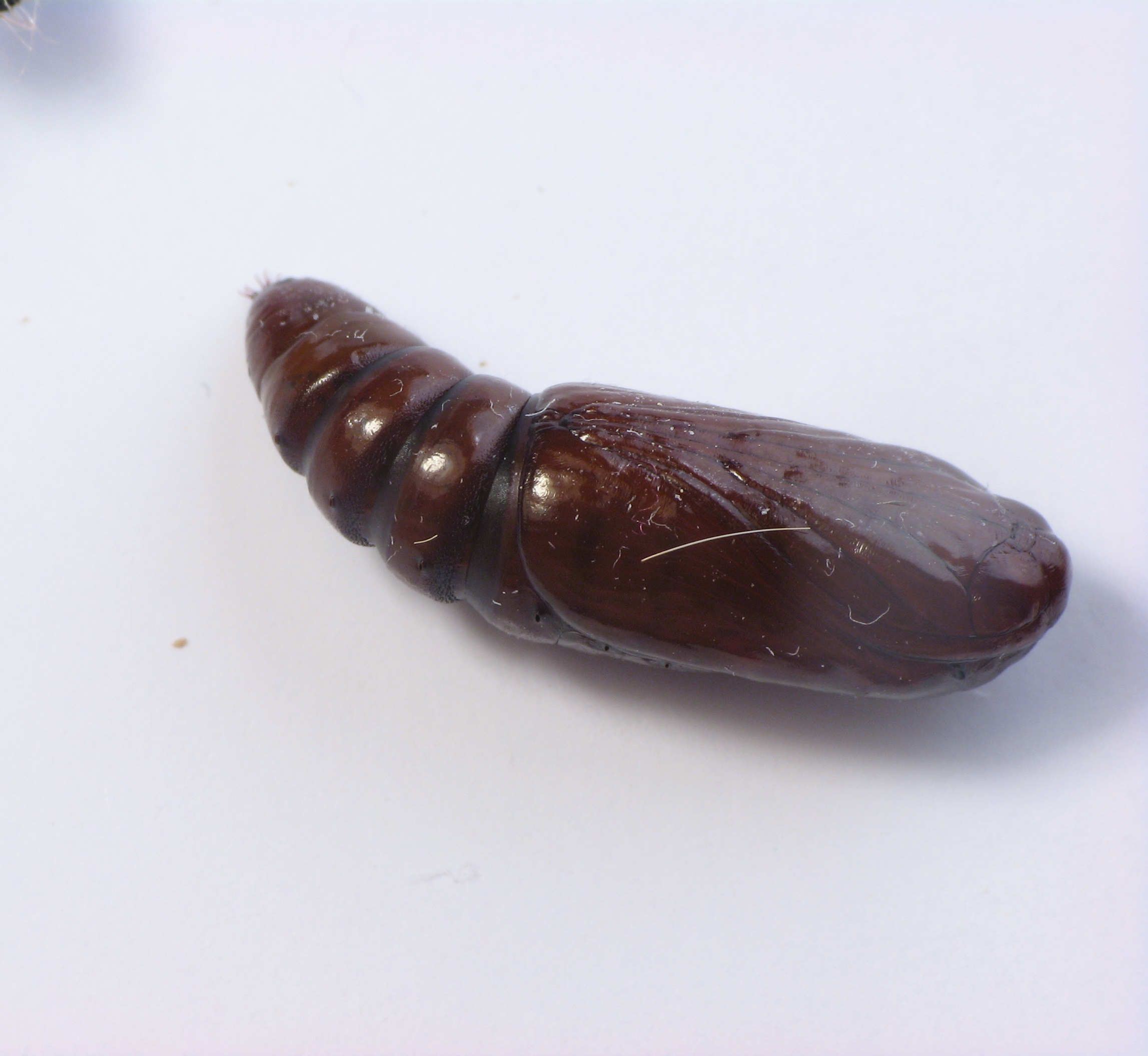 Pupa of Acronicta radcliffei (Radcliffe's Dagger Moth - Hodges#9209), caterpillar feeding on serviceberry (Amelanchier). Size: 16 mm. Briar Bush Nature Center, Montgomery County, Pennsylvania, USA.